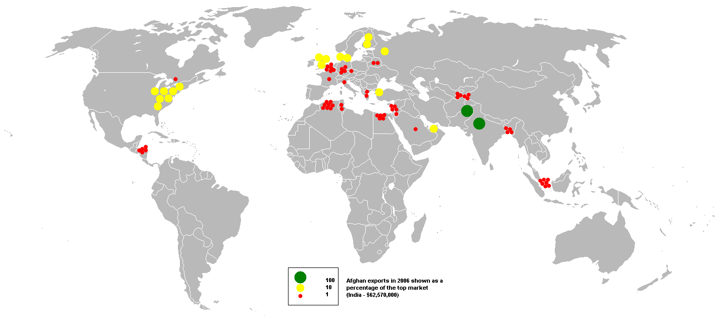 This bubble map shows the global distribution of Afghan exports in 2006 as a percentage of the top market (India - $62,570,000). This map is consistent with incomplete set of data too as long as the top producer is known. It resolves the accessibility issues faced by colour-coded maps that may not be properly rendered in old computer screens. Data was extracted on 18th September 2007 from Based on :Image:BlankMap-World.png